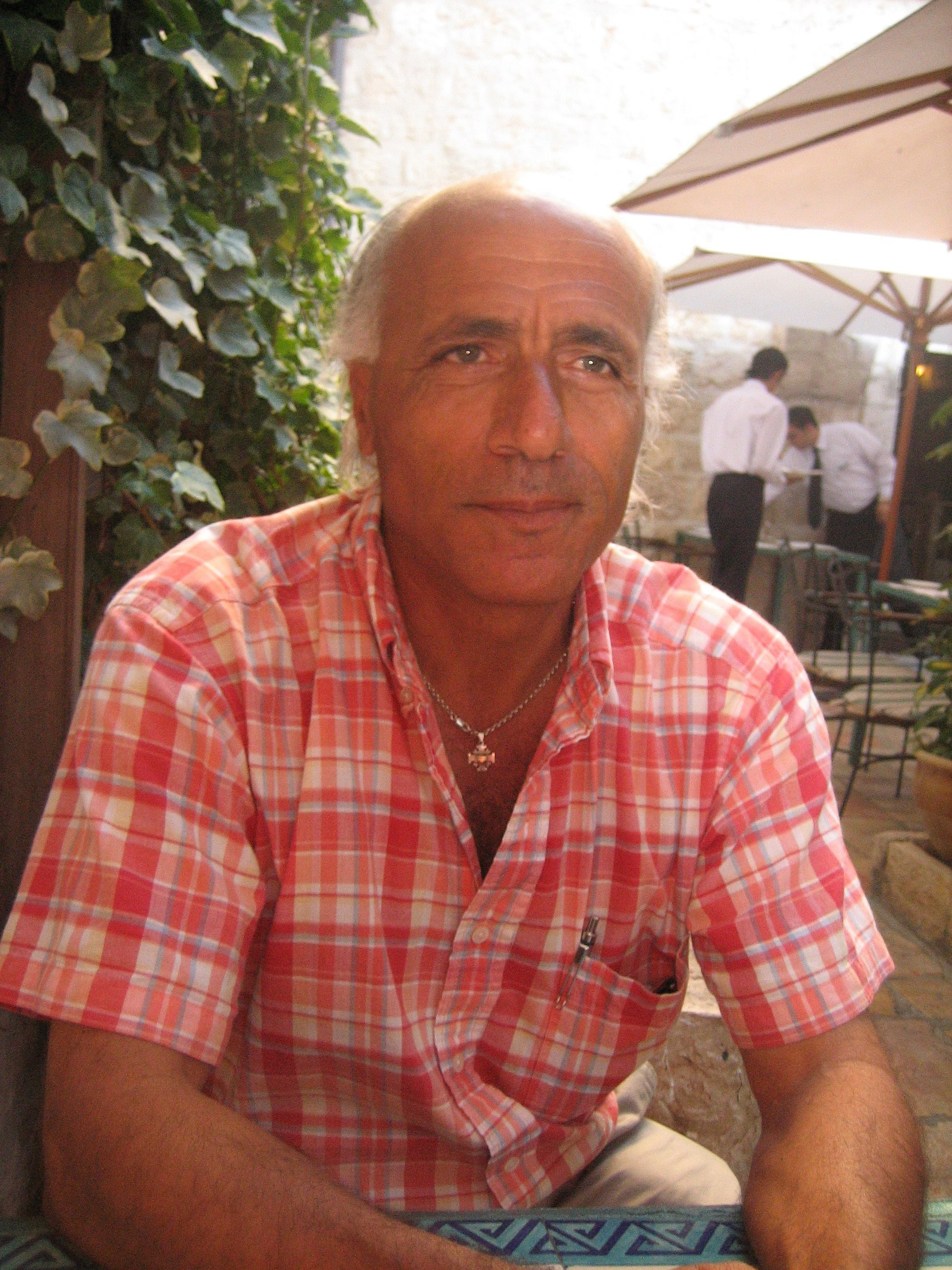 Mordechai Vanunu (Hebrew: מרדכי ואנונו, born in Marrakech, Morocco on 14 October 1954) is an Israeli former nuclear technician who revealed details of Israel's nuclear weapons program to the British press in 1986.